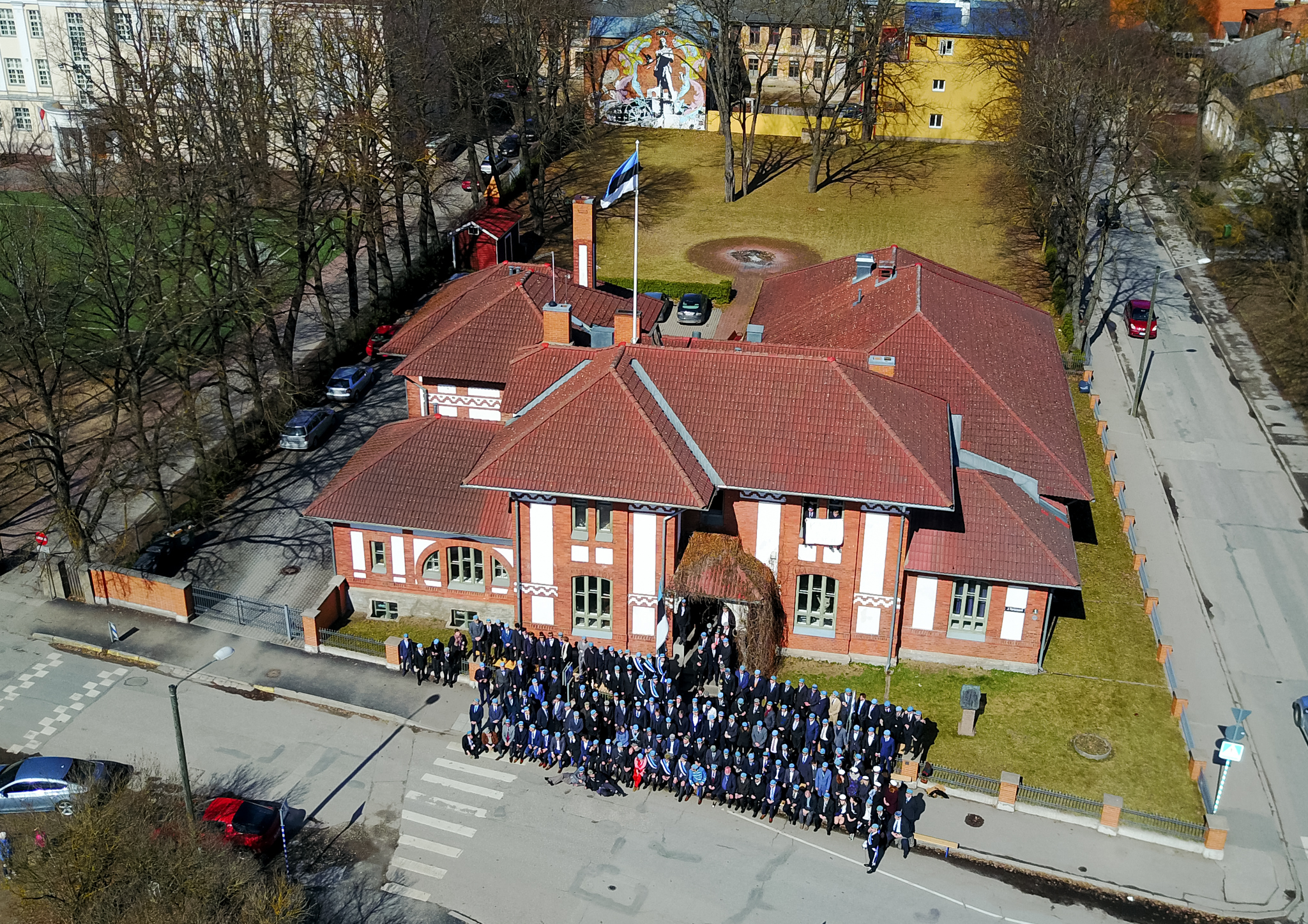 Estonian Students' Society building. 147th anniversary.